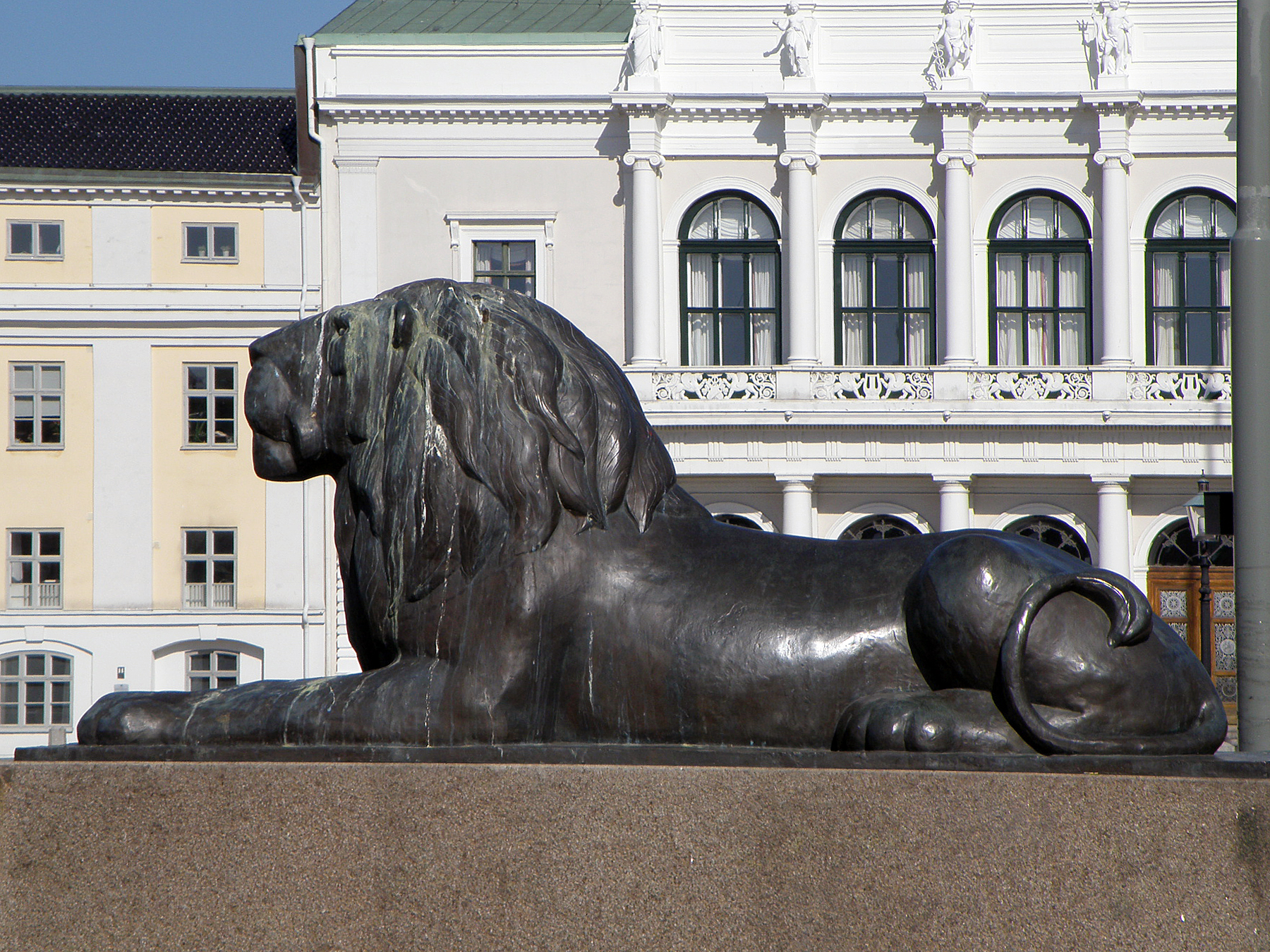 Bronze lion by Camilla Bergman, 1991. One of two lions flanking the Lion Stairs, Gothenburg, Sweden.